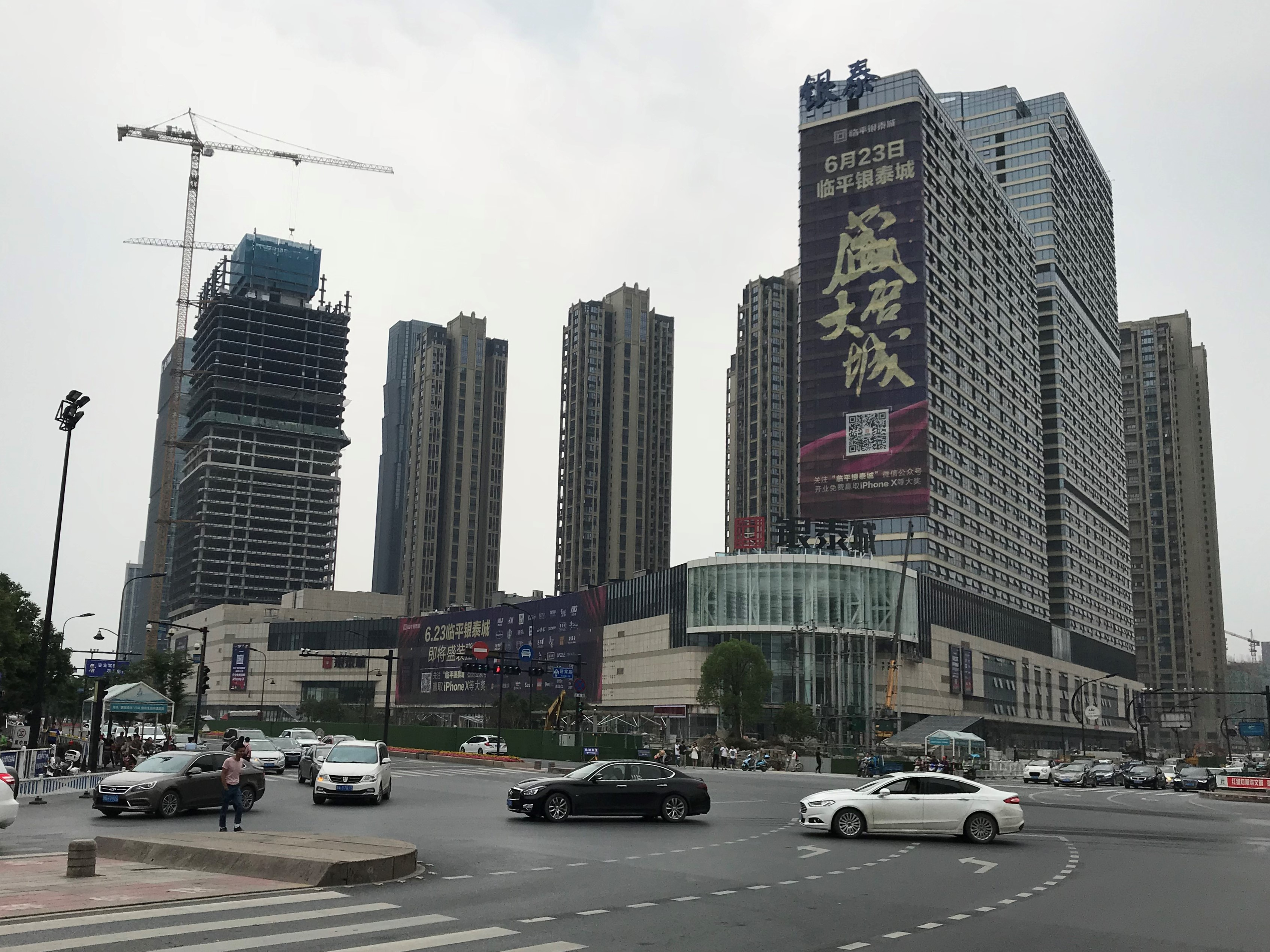 201806 Linping Intime City